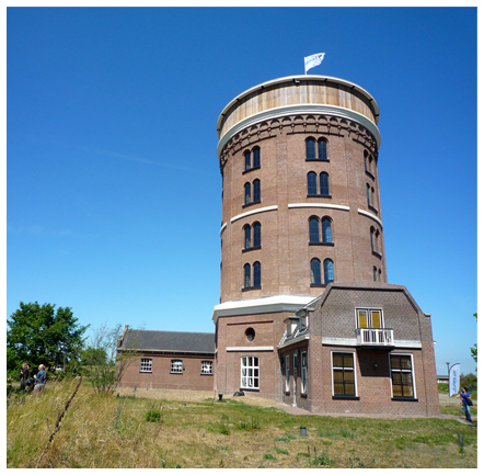 Katwijk, Netherlands - water tower.